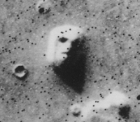 The “Face on Mars” was one of the most striking and remarkable images taken during the Viking missions to the red planet (the black specks represent data errors). Unmistakeably resembling a human face, the image caused many to hypothesize that it was the work of an extraterrestrial civilization. Later images revealed that it was a mundane feature rendered face-like by the angle of the Sun.